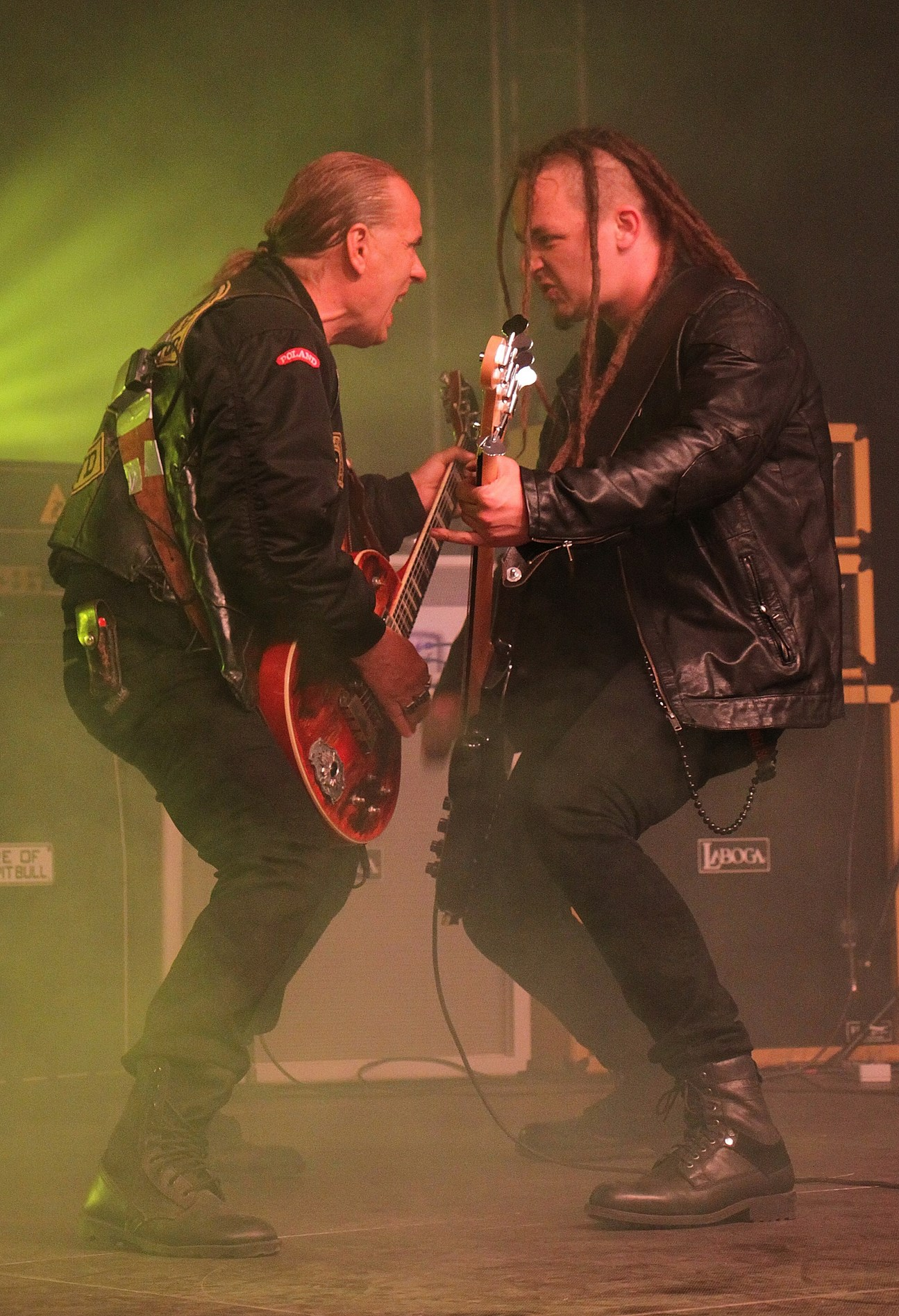 Złe Psy on stage (Andrzej Nowak & Paweł Nafus)